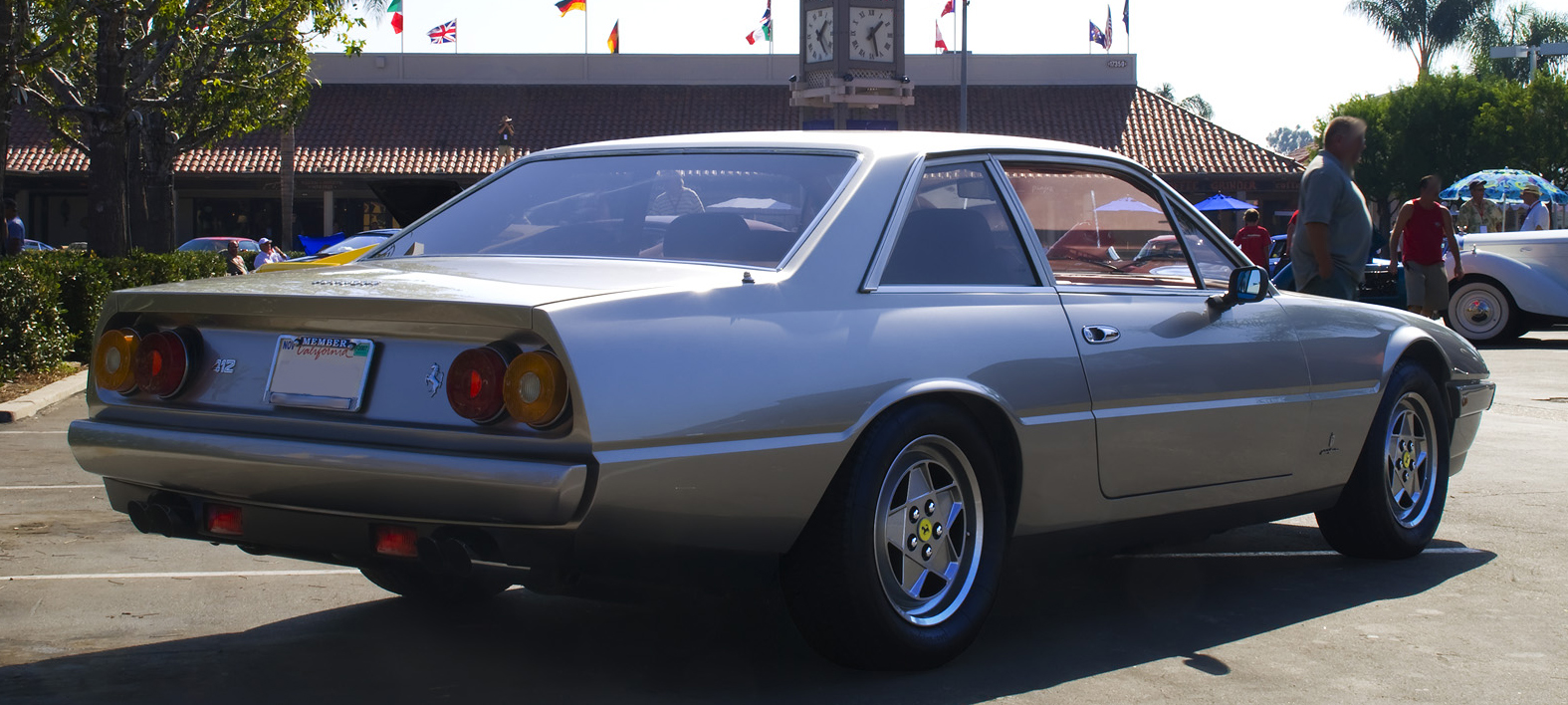 1988 Ferrari 412 at Enderle Center - Tustin, CA